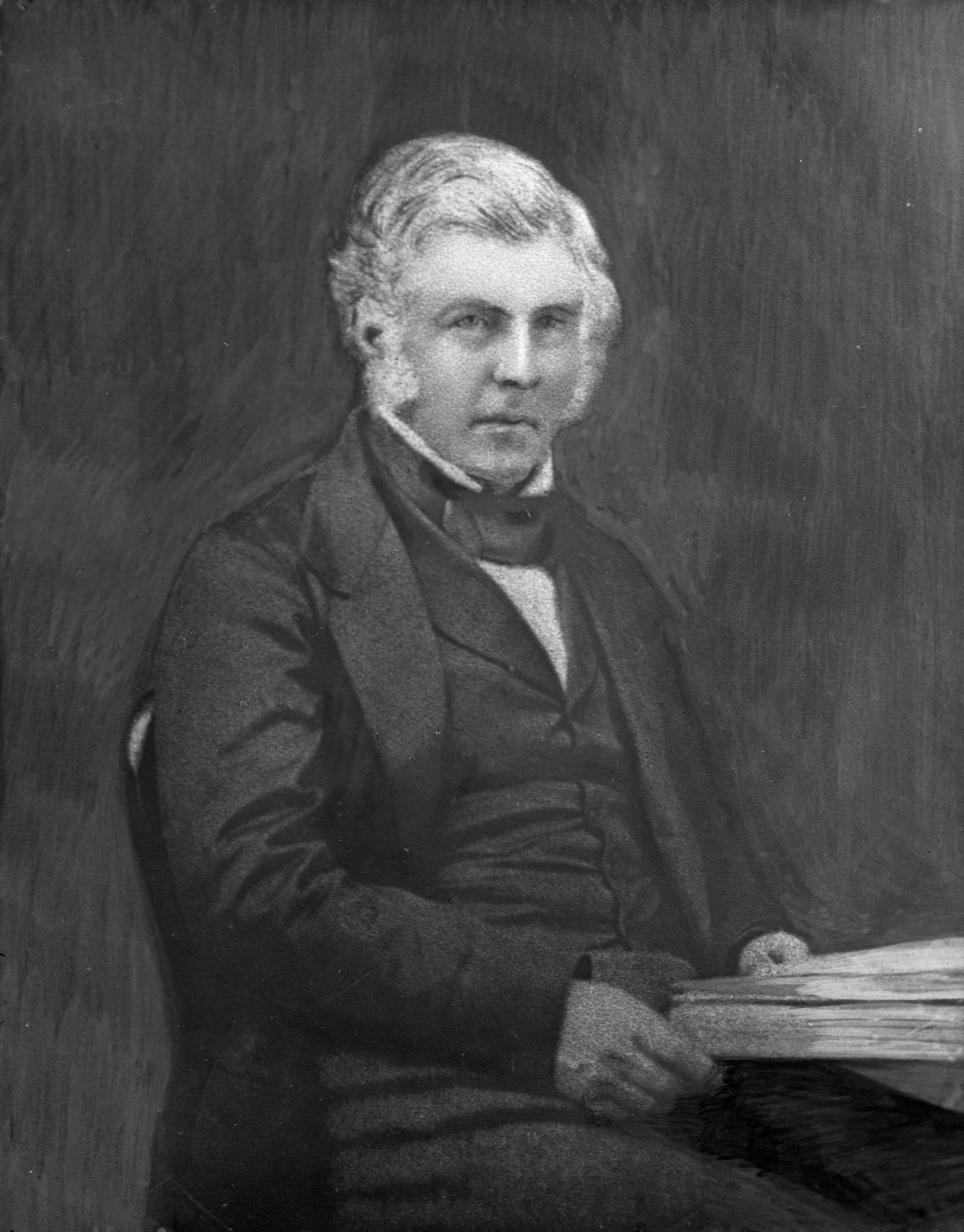 Henry Sewell New Zealand's first Prime Minister